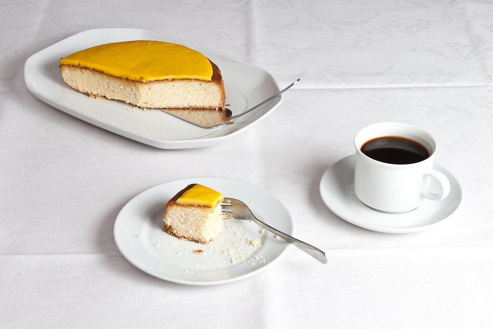 A lemon sponge cake, known in Denmark as a Lemon crescent moon. Is often, humourously, atrributed to be a favorite snack of the police, much in the same way as donuts is in other countries.